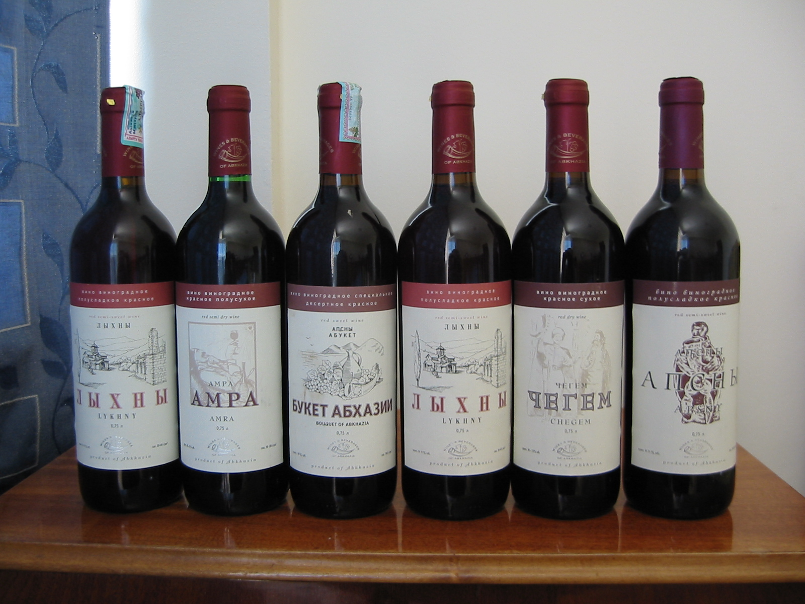 Wines of Abkhazia